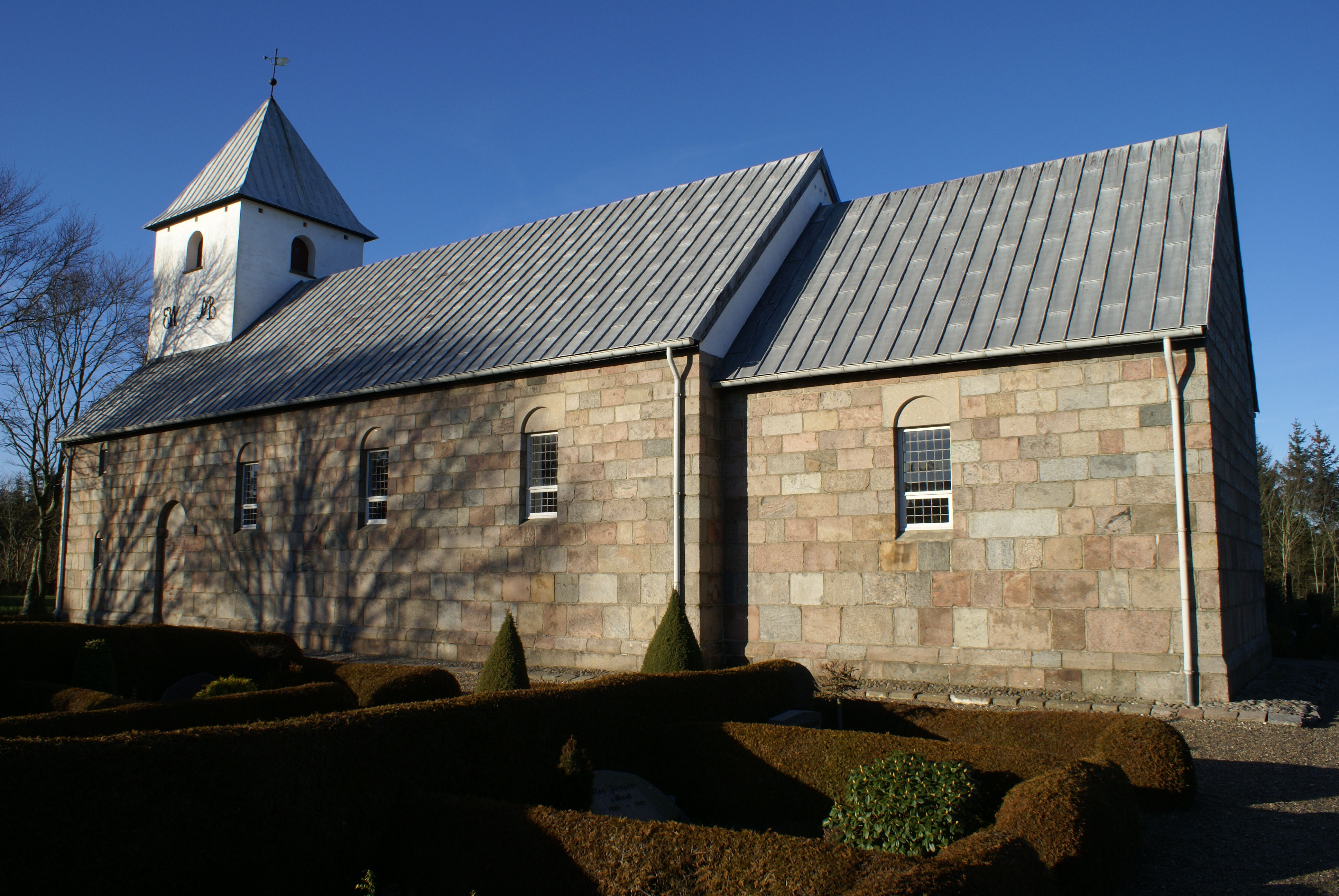 Church of Rubjerg, Denmark